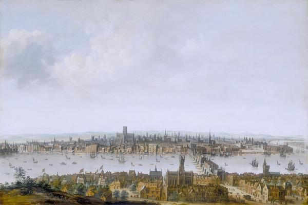 A view of the City of London from Southwark. The church which later became Southwark Cathedral is on the near bank and "Old" St. Paul's Cathedral is the largest of the churches on the far bank. It has lost its spire by this date.